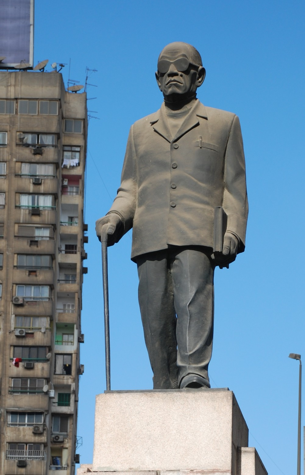 in Cairo, on Midan Sphinx, Shari 26 Yulyu